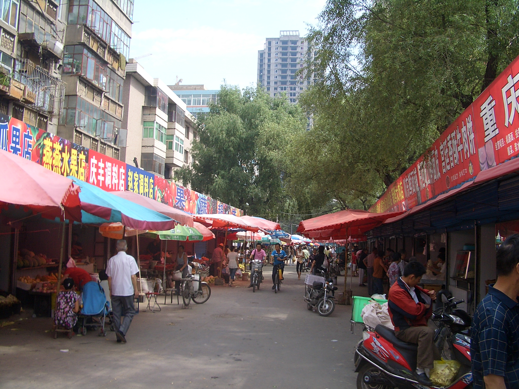 A market street in Lanzhou, around 1 km NE of the train station